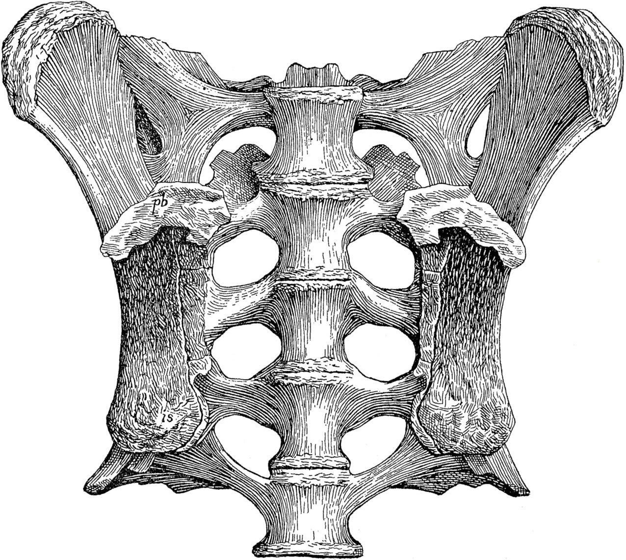 Illustration of Haplocanthosaurus priscus sacrum.